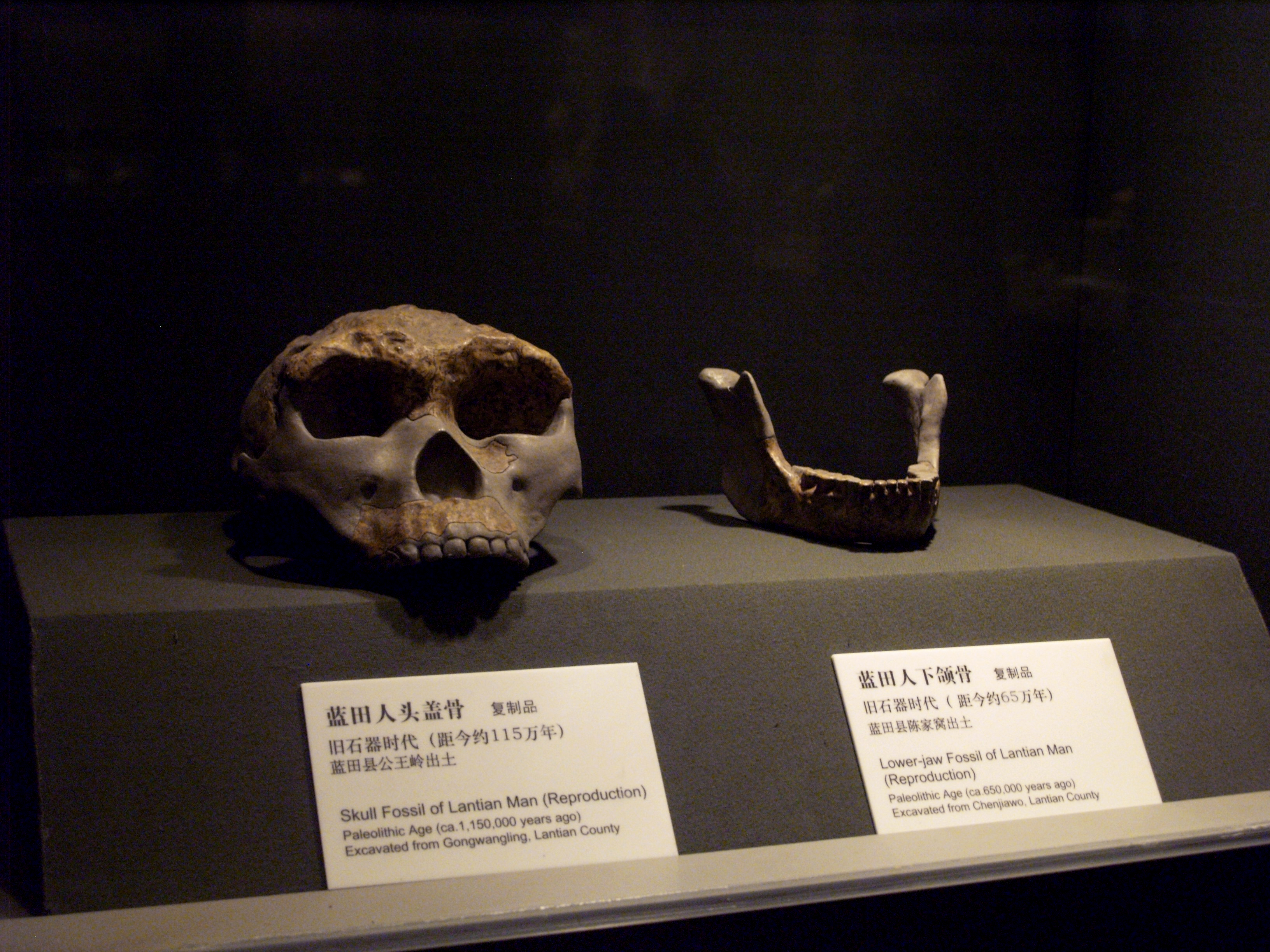 Lantian Man skull and jaw replicas, Shaanxi History Museum